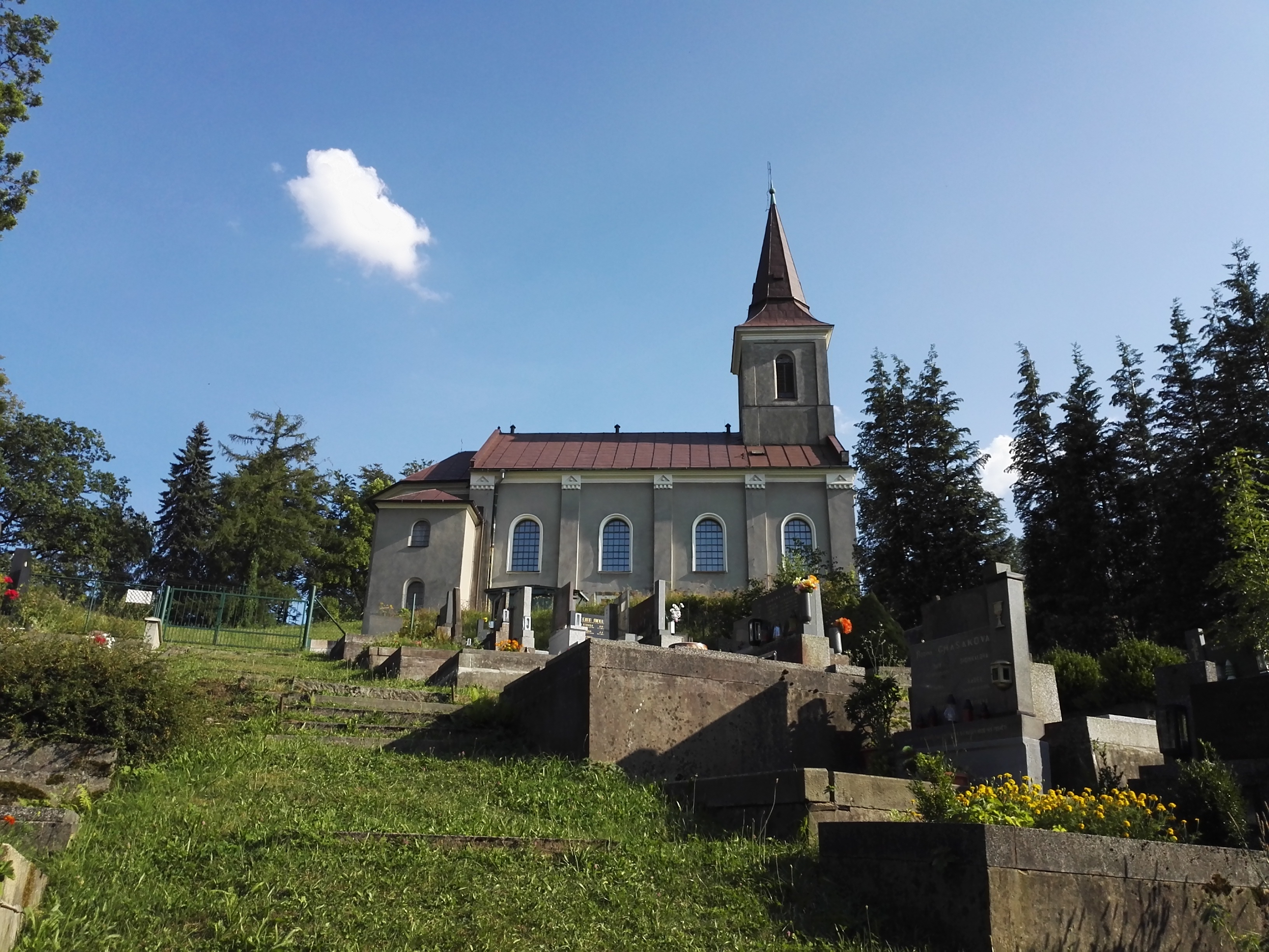 Ostravice (formerly Staré Hamry). Protestant church and so-called forest cemetery.